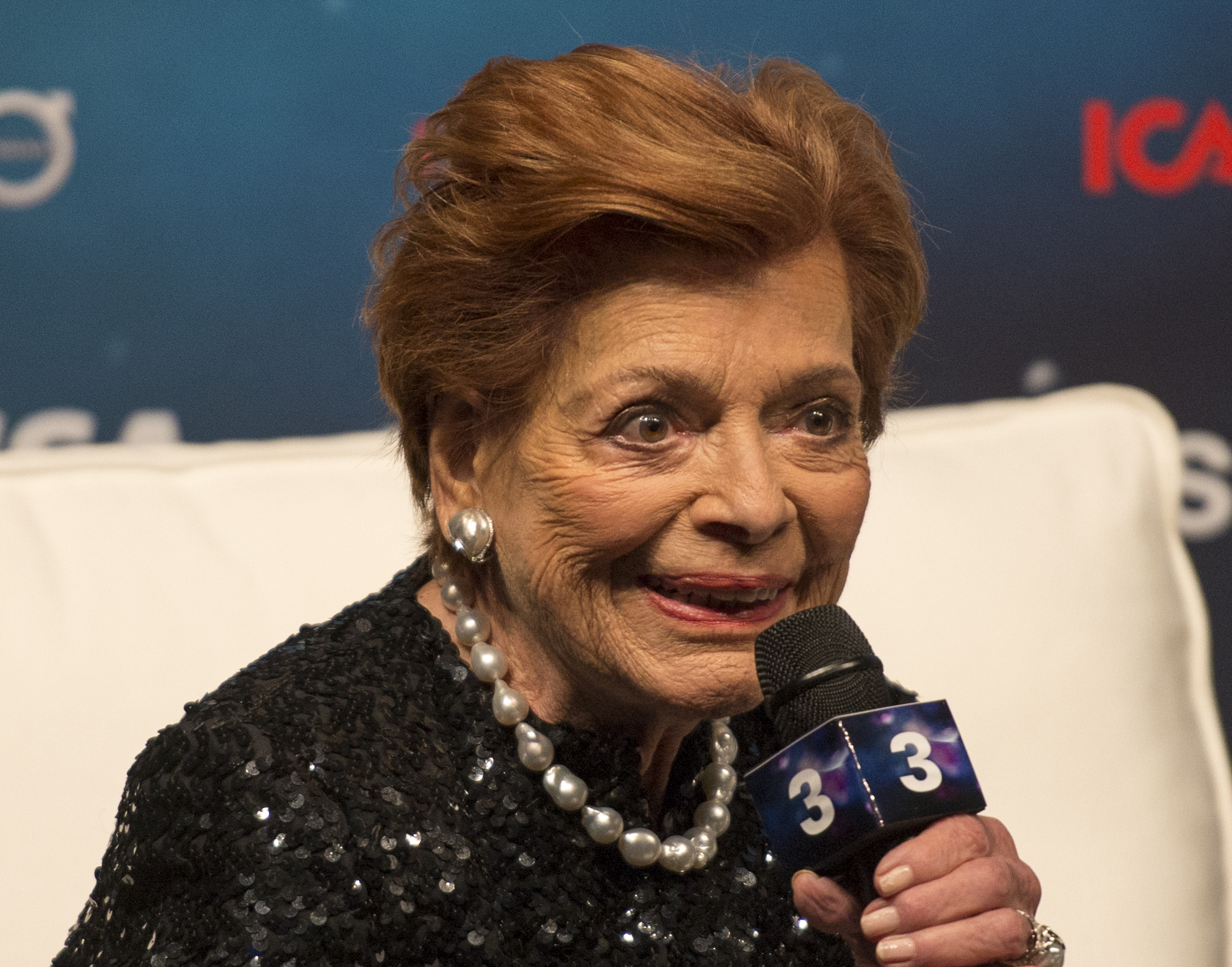 Lys Assia during the Eurovision Song Contest 2016 in Stockholm. (Help translate this text)